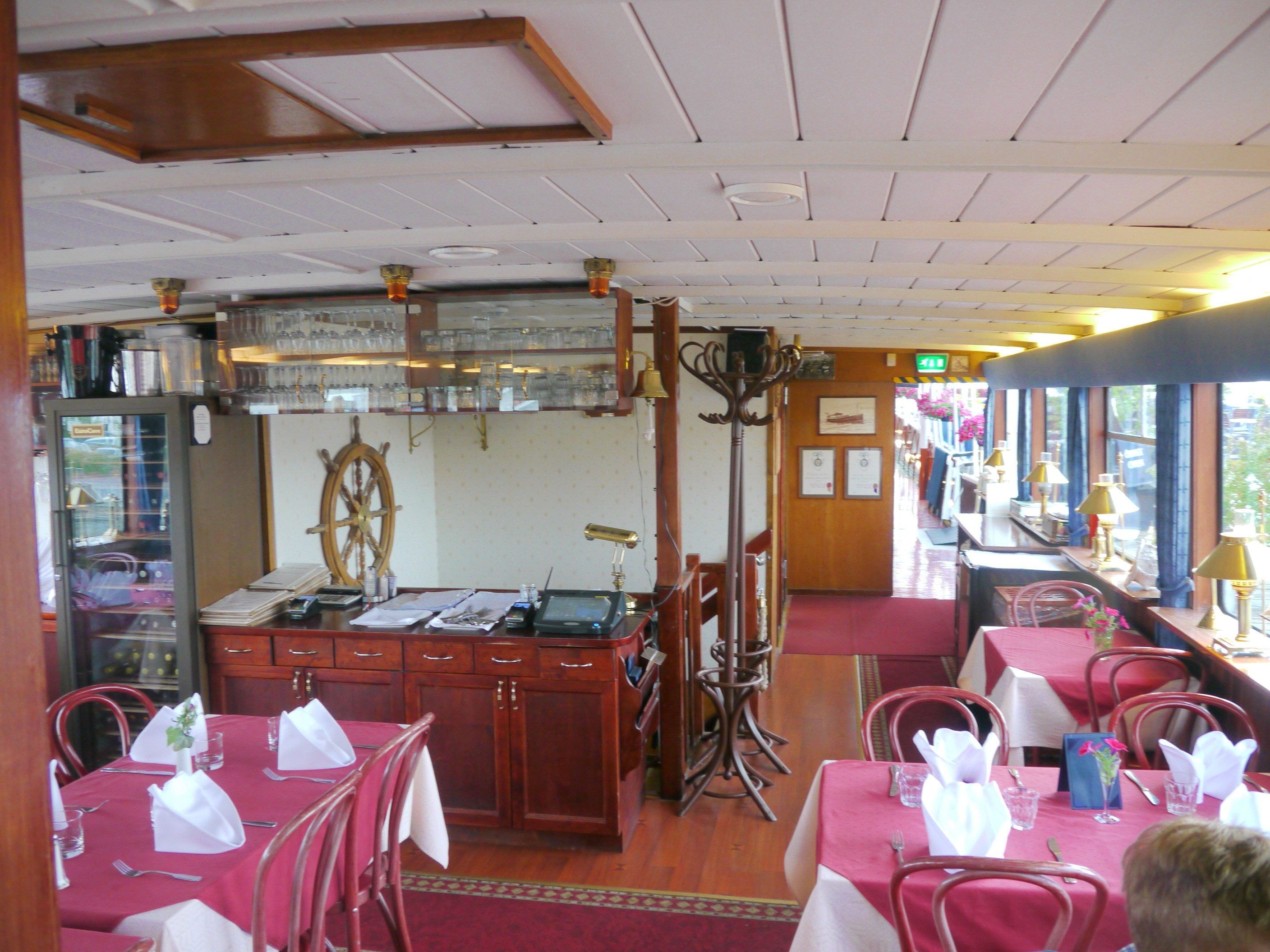 The interior of the restaurant part of the F.P. von Knorring, in the front part of the ship.